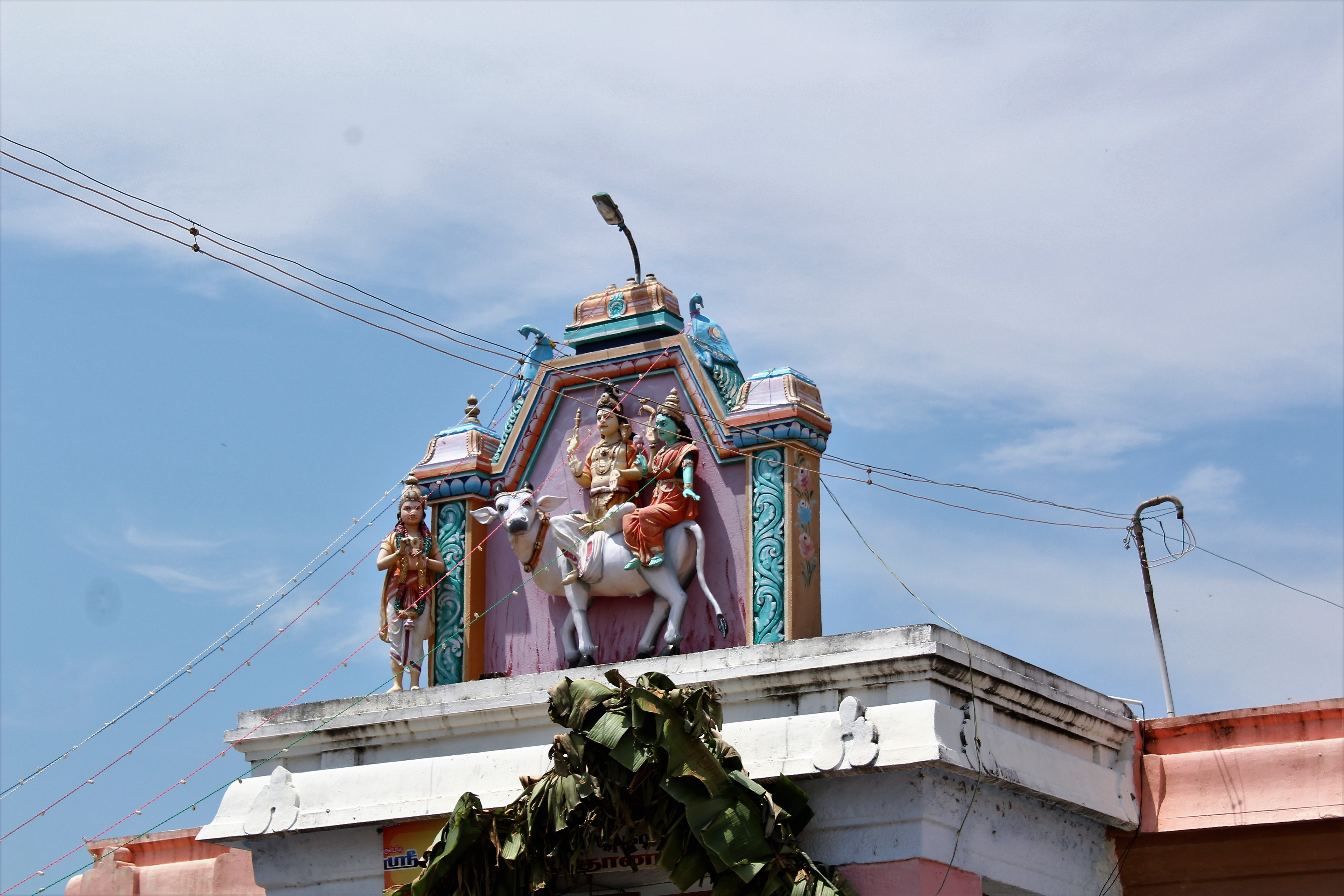 Narthana Vallabheshwarar temple